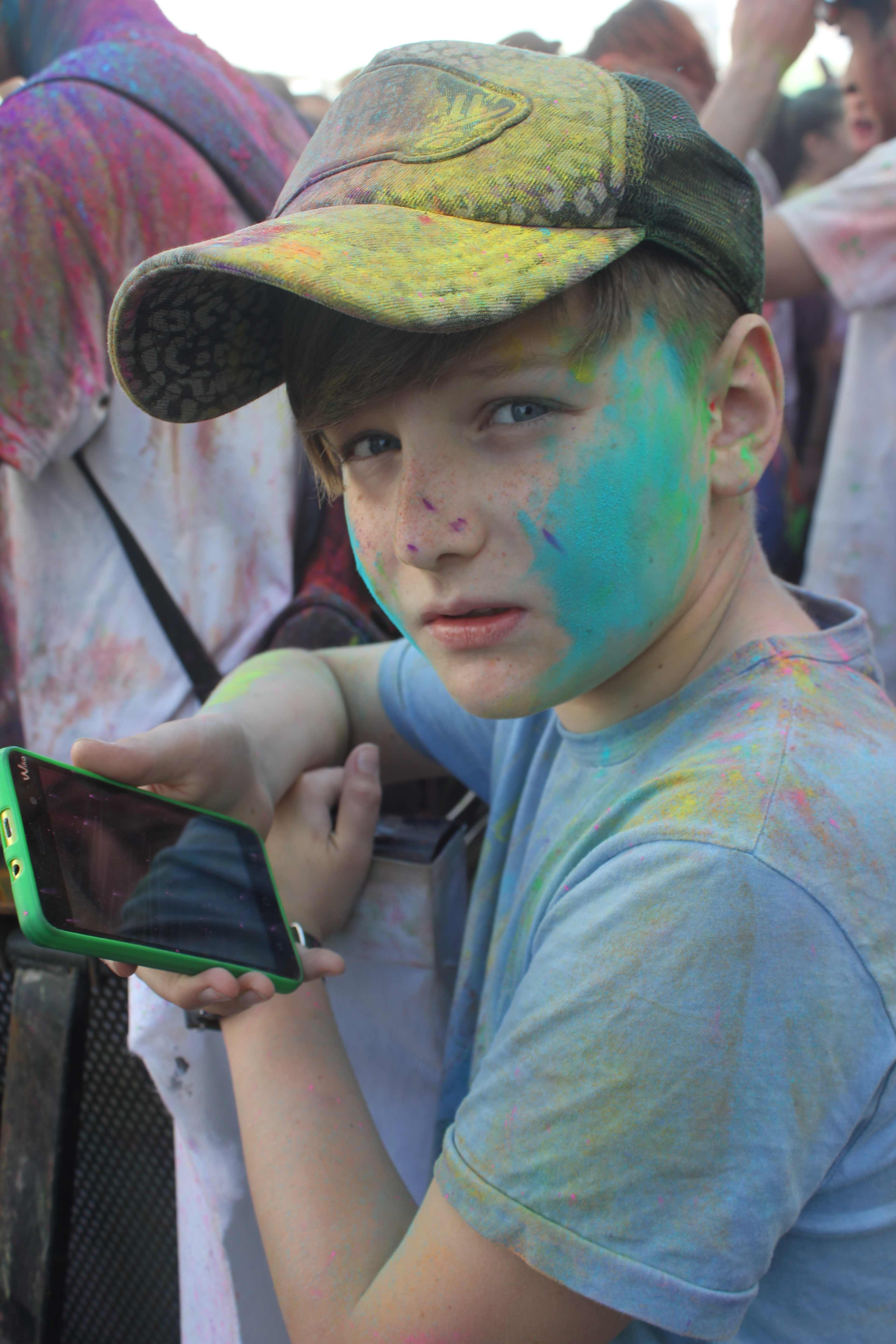 Holi Festival 2018 in Nuova Fiera di Roma